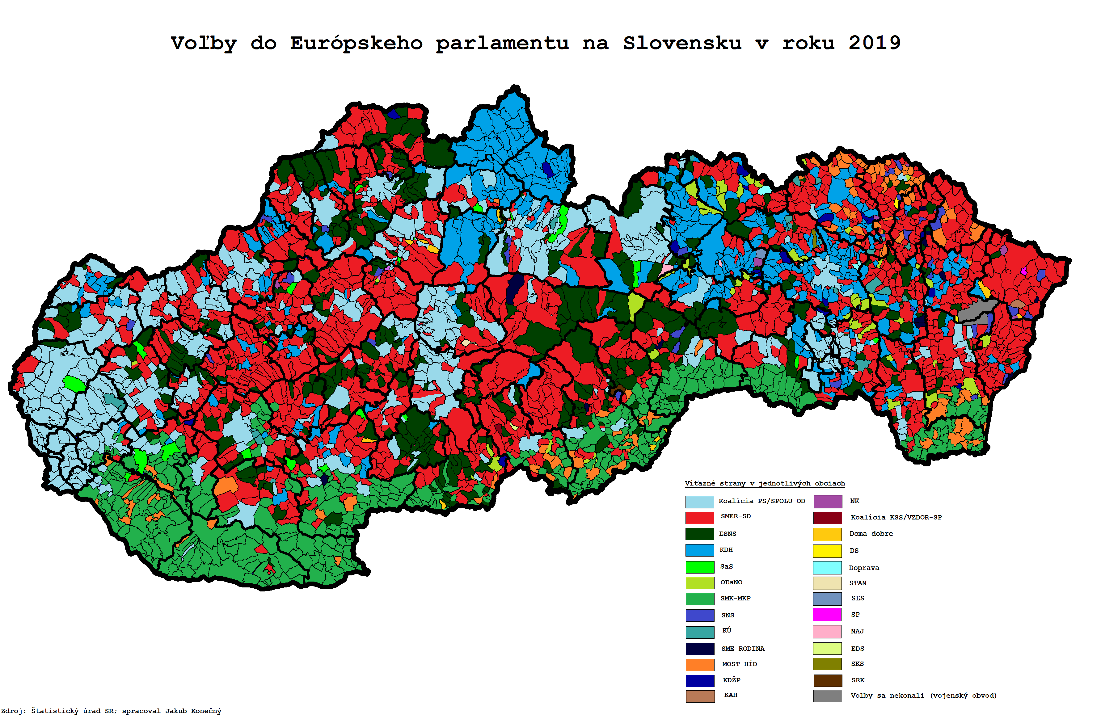 The results of the 2019 European Parliament elections in Slovakia. The municipalities are coloured according to the political parties which have reached most votes in all of them. By the municipalities with shared number of votes for more parties, all those are included.